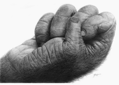 Scan of an original graphite painting by Terry Jackson, Australian artist